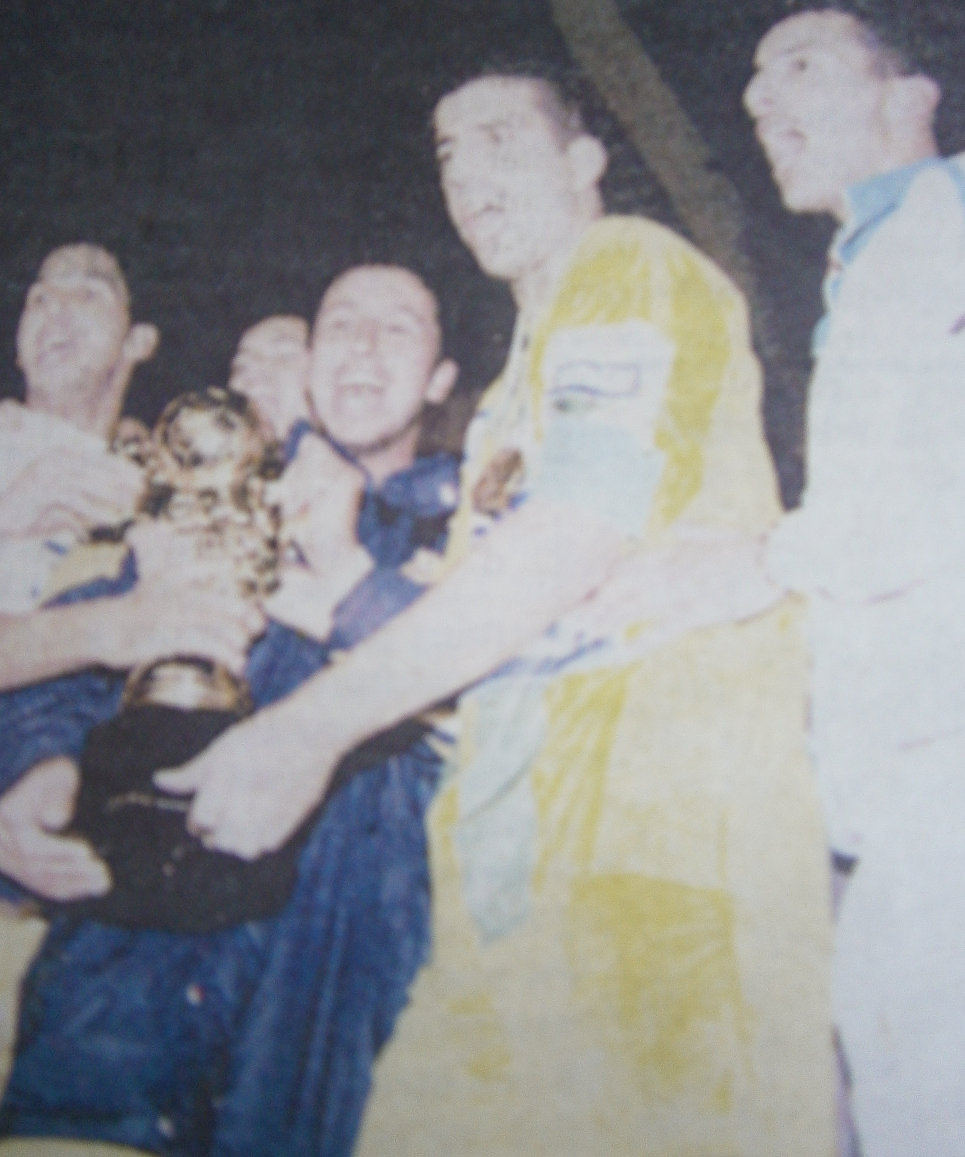 JSK Team receive the trophy of Caf Cup, an africain club competition, in 2001 after the final return at Tizi-Ouzou city in Algeria.